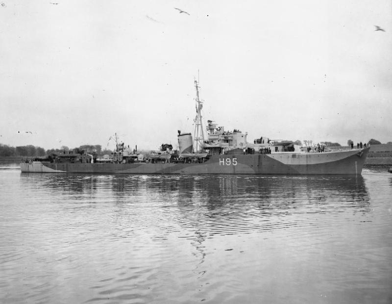 Photograph of British destroyer HMS Roebuck (H95).